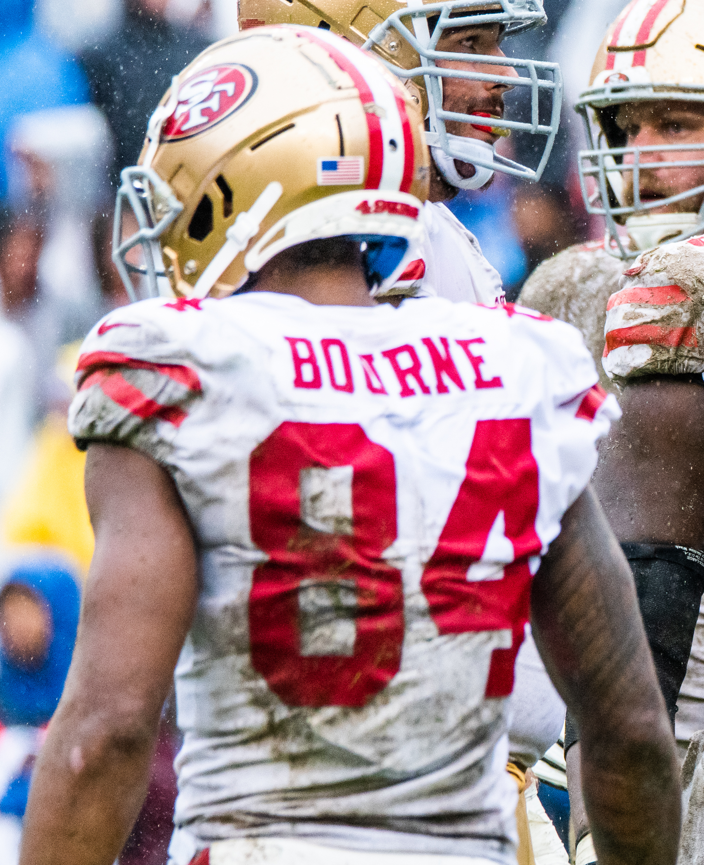 in 2019